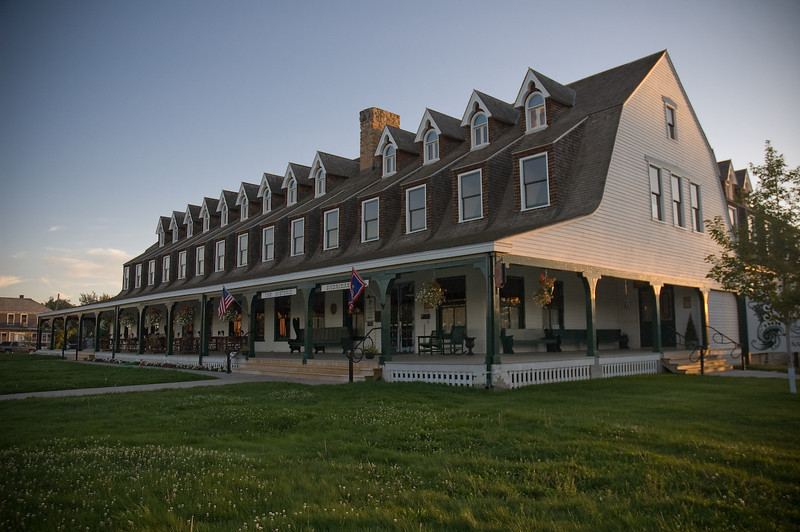 The Sheridan Inn, taken from the corner of 5th and Broadway